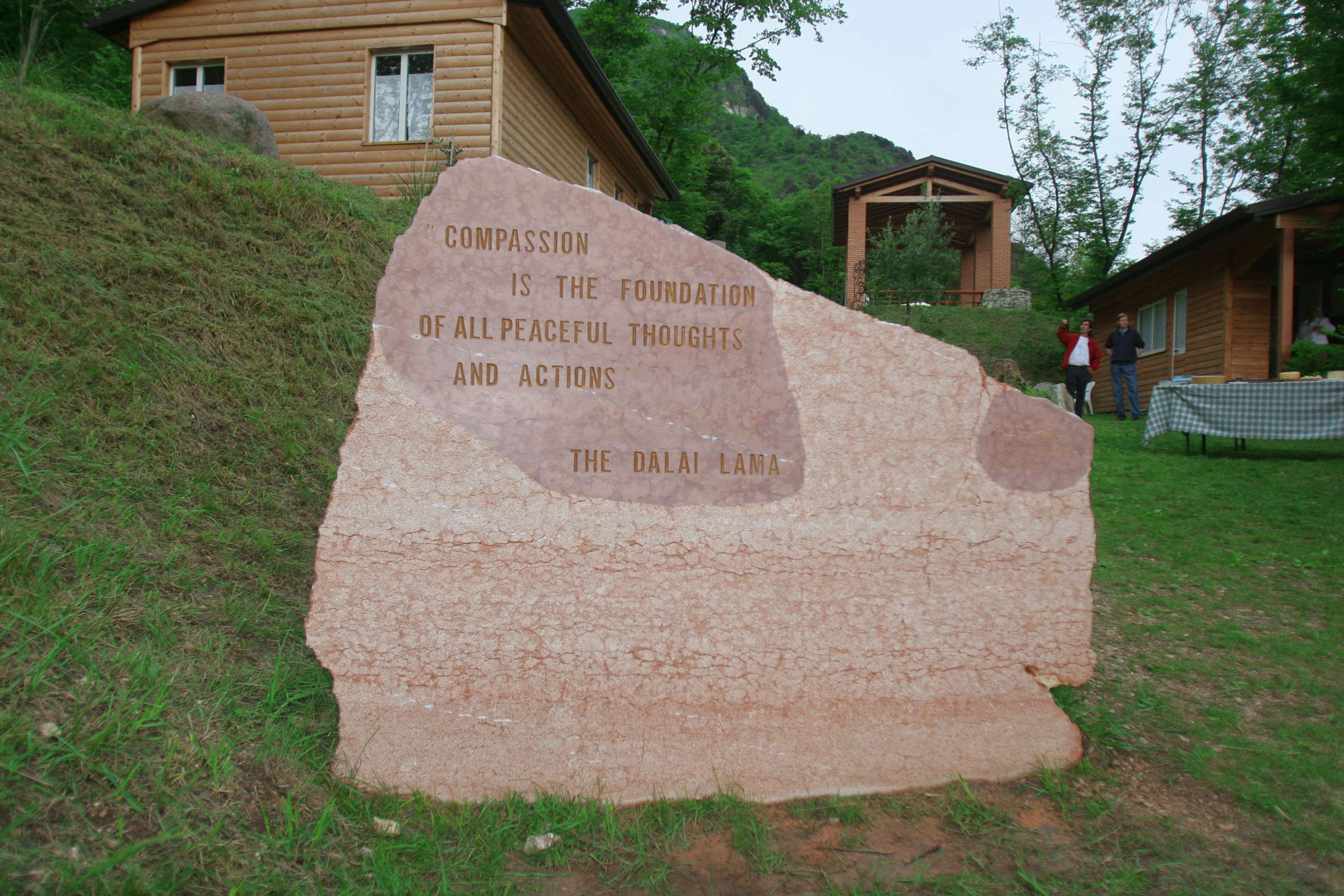 A stone with a poem donated by Dalai Lama, located in Bosco dei Poeti (Italy)